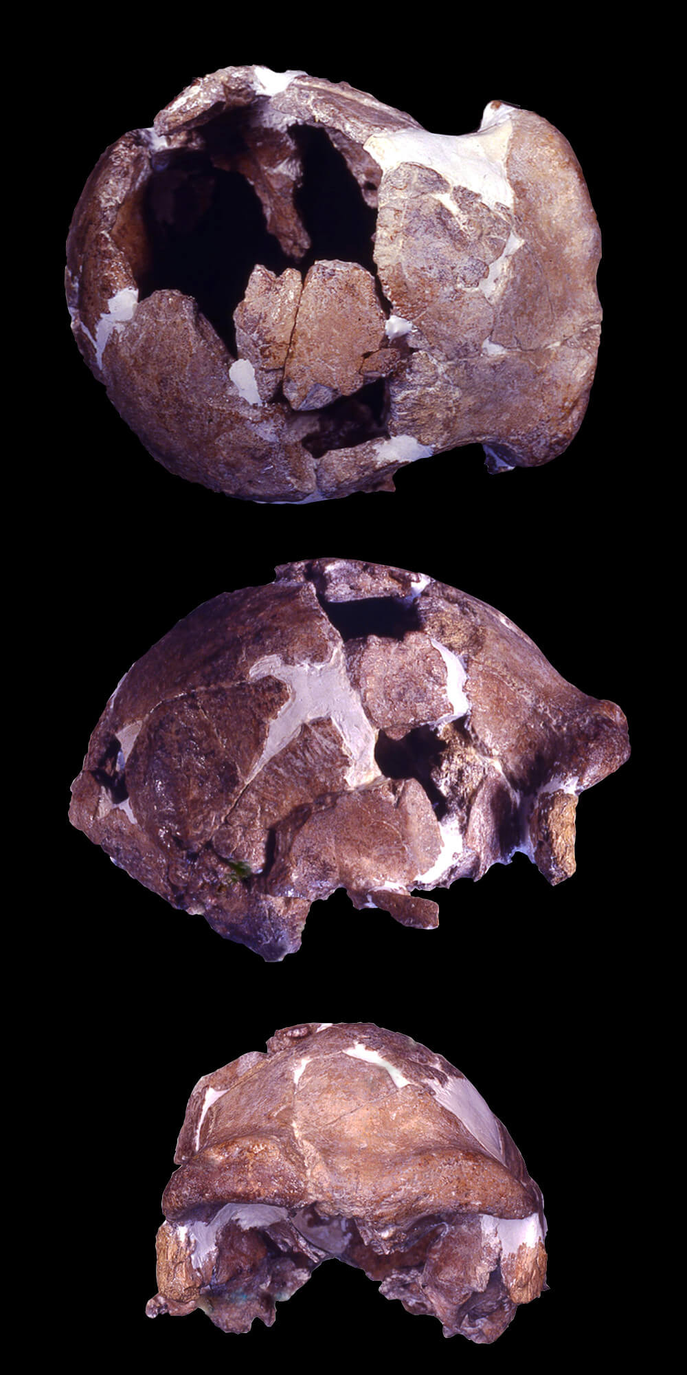 improved picture from the original